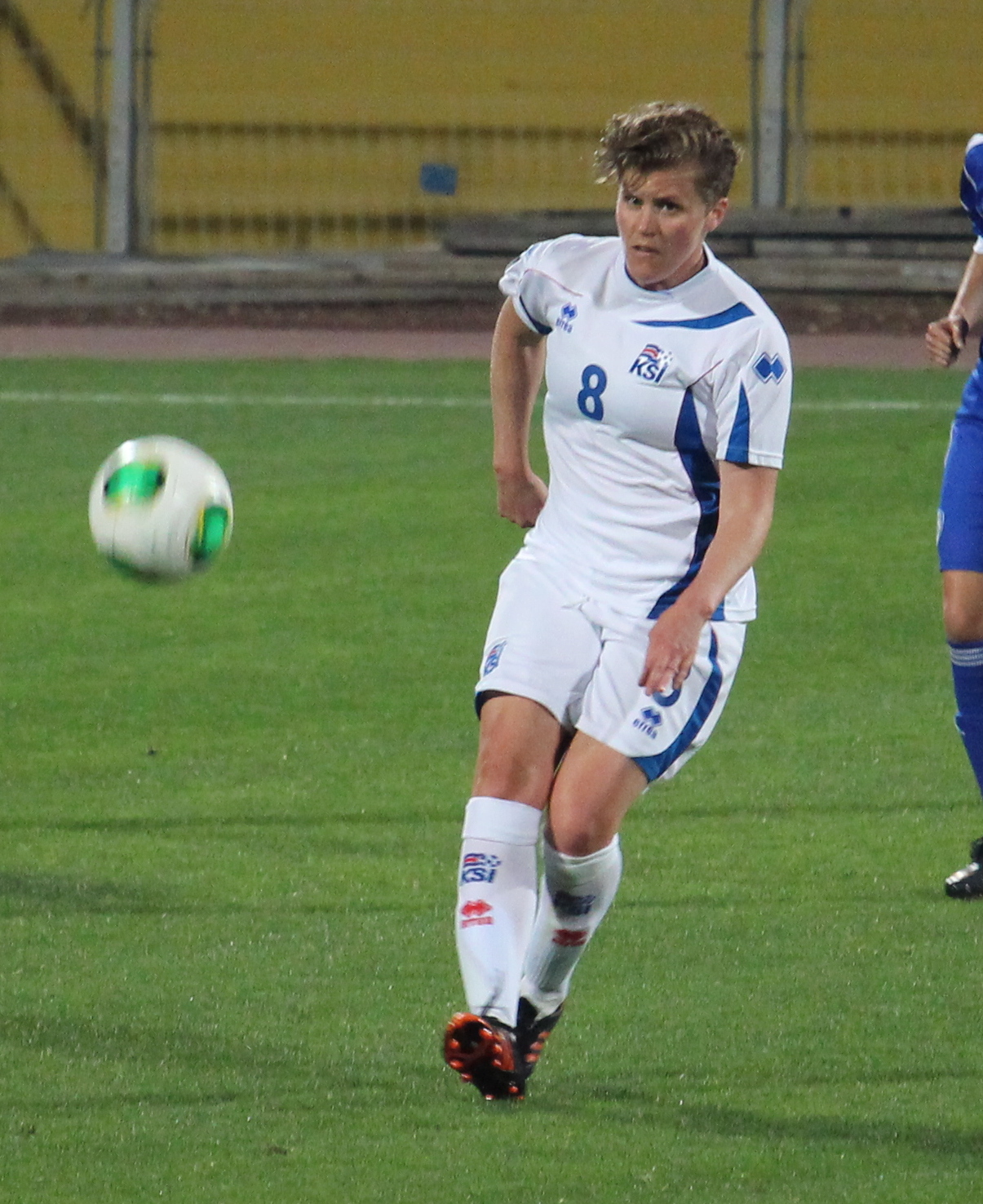 Katrín Ómarsdóttir. Israel - Iceland, 2015 FIFA Women's World Cup qualification UEFA Group 3, 5 April 2014.